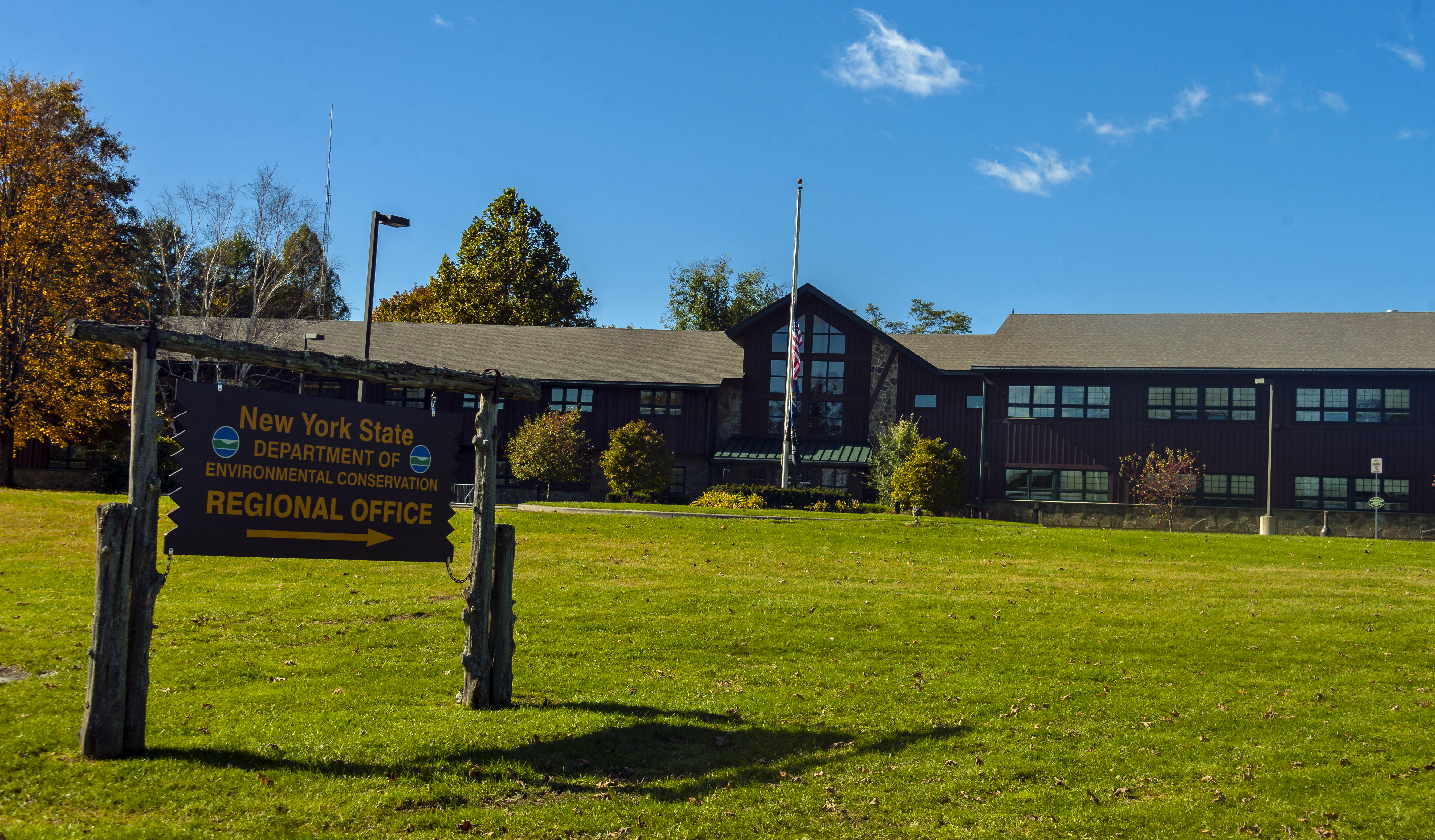 New, expanded Region 3 headquarters of the New York State Department of Environmental Conservation in New Paltz. Flag was at half-staff to honor the victims of the Schoharie limousine crash three weeks earlier.